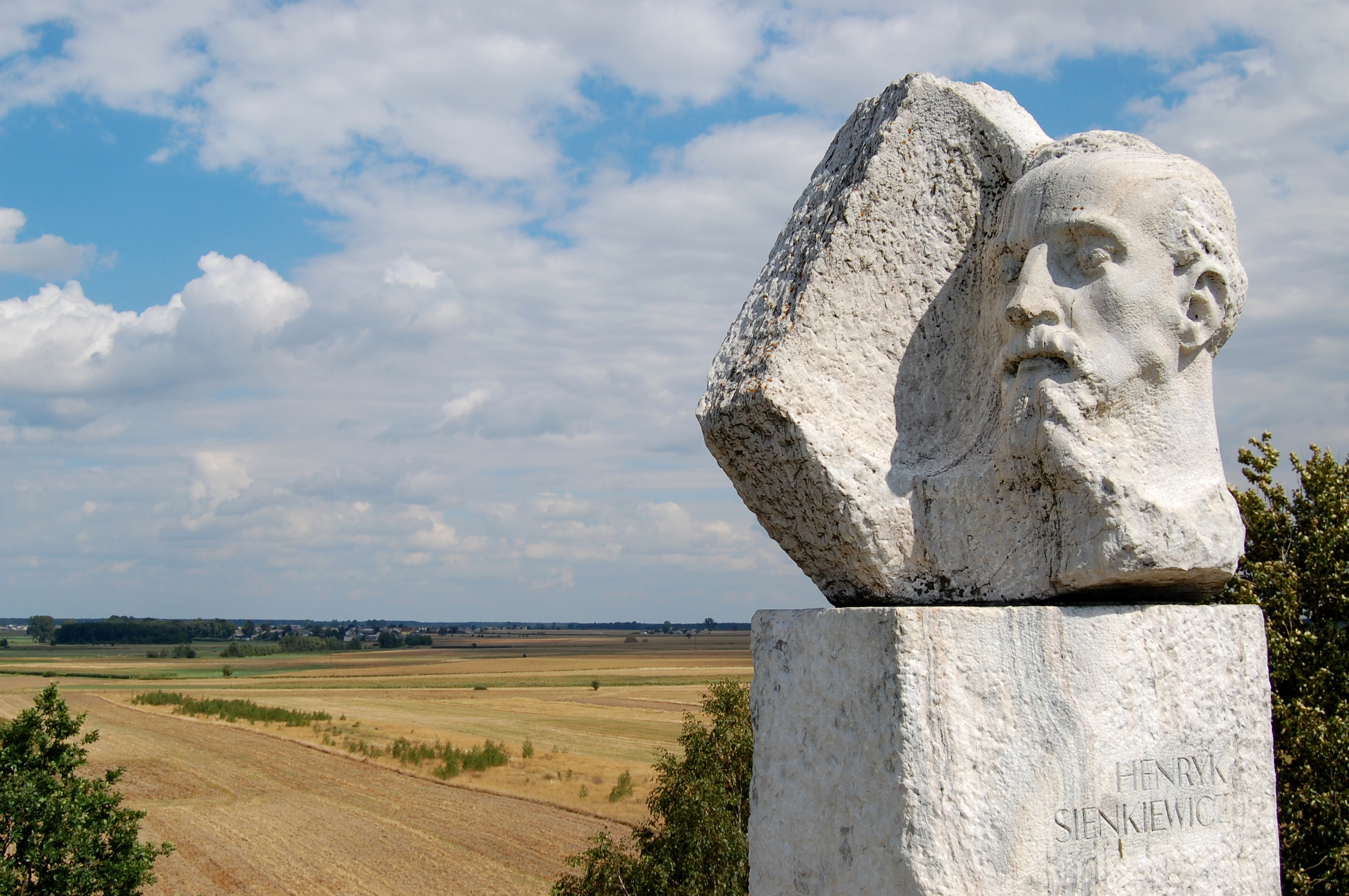 Monument of Henryk Sienkiewicz, Polish Nobel Prize-winning novelist and journalist, Okrzeja, Lublin Voivodeship, Poland. Village seen on the left side is Wola Okrzejska — writer's place of birth.